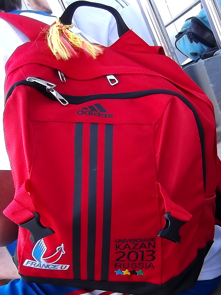 bag of participant of 2013 Summer Universiade in Kazan